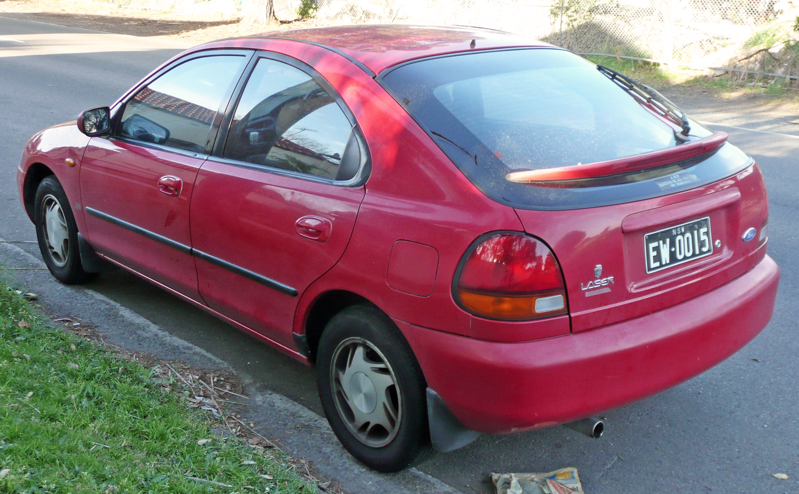 1995 Ford Laser (KJ) Liata Ghia 5-door hatchback. Photographed in Sutherland, New South Wales, Australia.